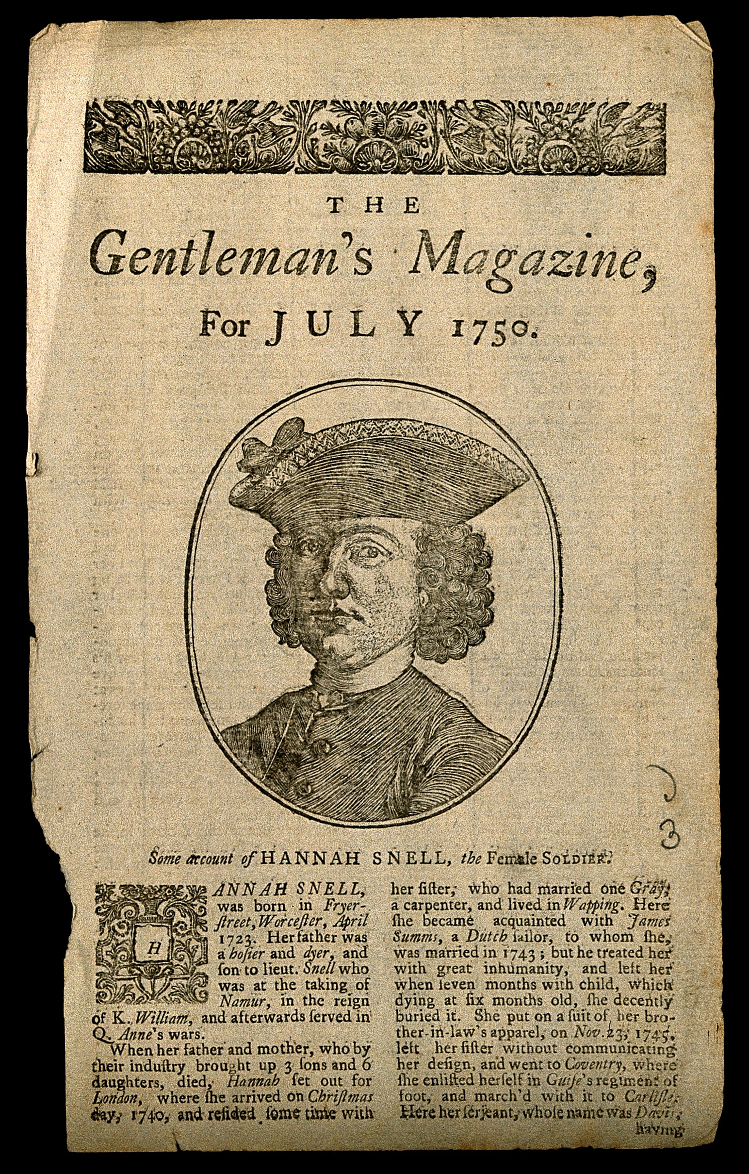 Hannah Snell, a woman who passed as a male soldier. Wood engraving, 1750. Iconographic Collections Keywords: Hannah Snell